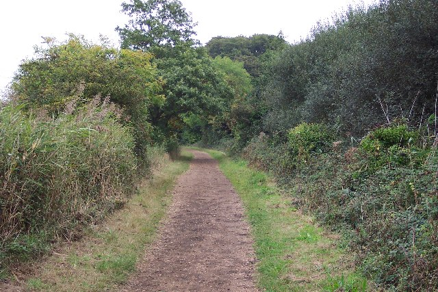 The Freshwater Way cycle path. Using part of the trackbed of the old Freshwater, Yarmouth and Newport Railway, this cycle path provides an off-road route between Freshwater and Yarmouth. Looking east towards the Causeway crossing.